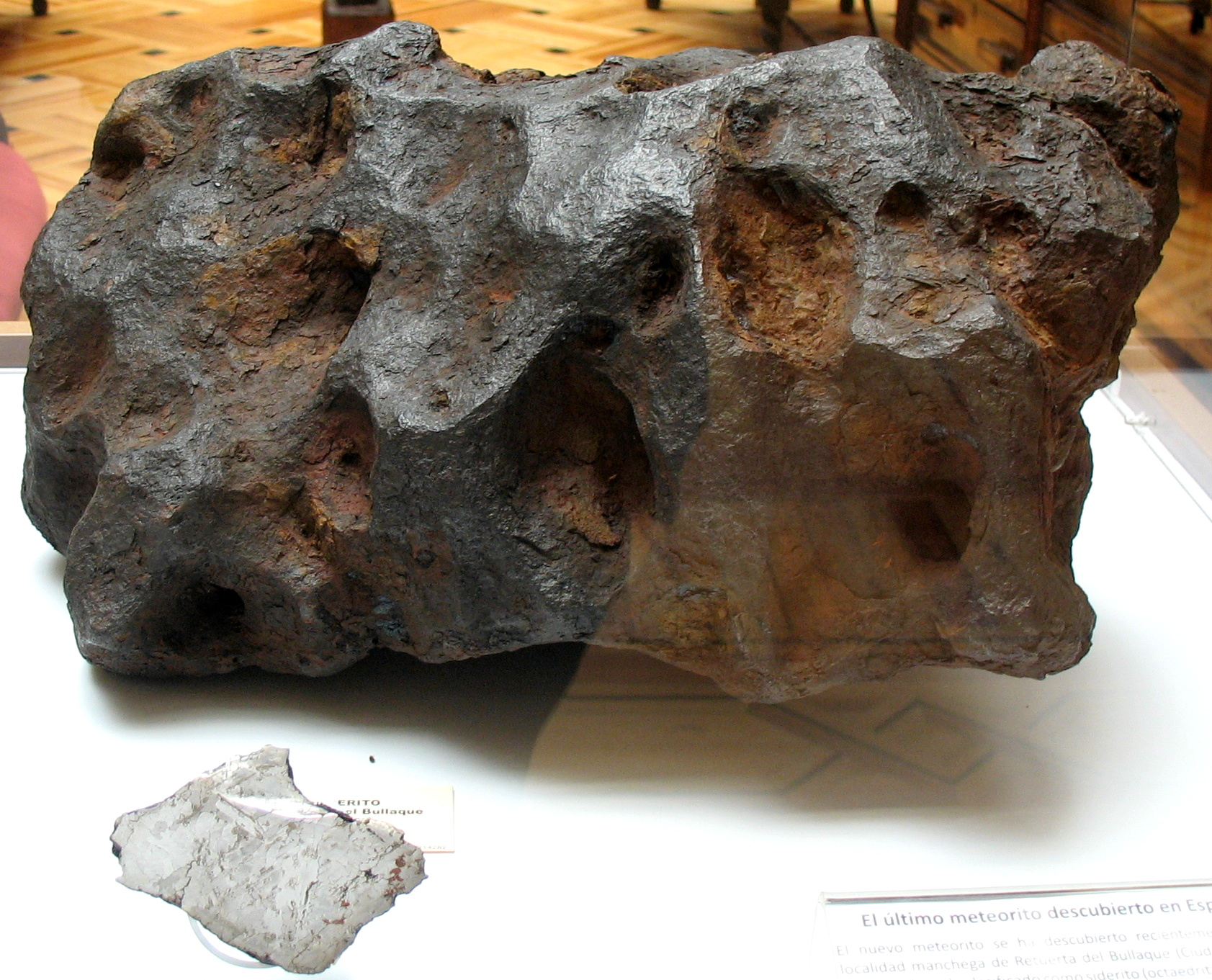 Retuerta del Bullaque meteorite, replica and original fragment deposited in the Museo Geominero, Madrid, Spain. File in The Meteoritical Society.